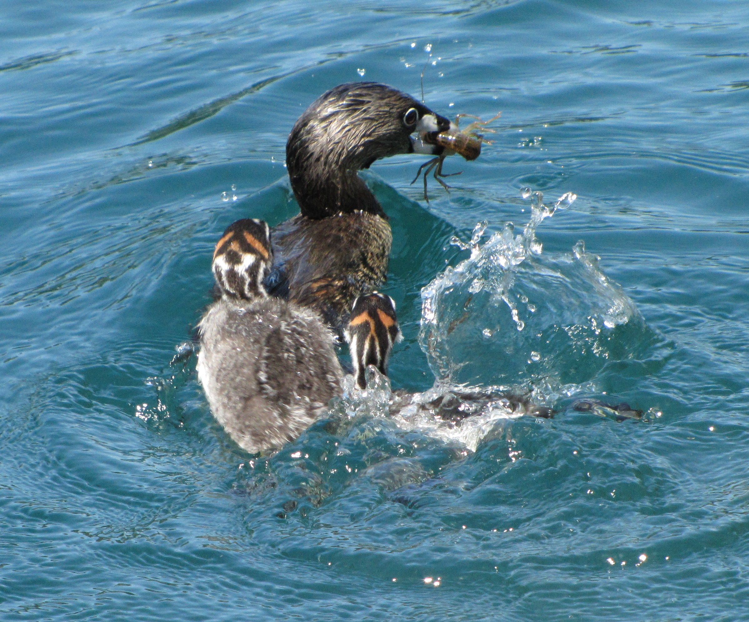 Pied-billed grebe (Podilymbus podiceps) feeding a crayfish (Procambarus clarkii) to its chicks. Location: Laguna Lake, Fullerton, CA, USA Identification: The crayfish species identification was based only on the fact that it seems to be the only crayfish species occurring in the area where the photograph was taken. Comment: The chicks have swum toward the mother after she has returned to the surface with the crayfish prey. Eventually one of the chicks succeeded in swallowing the crayfish.